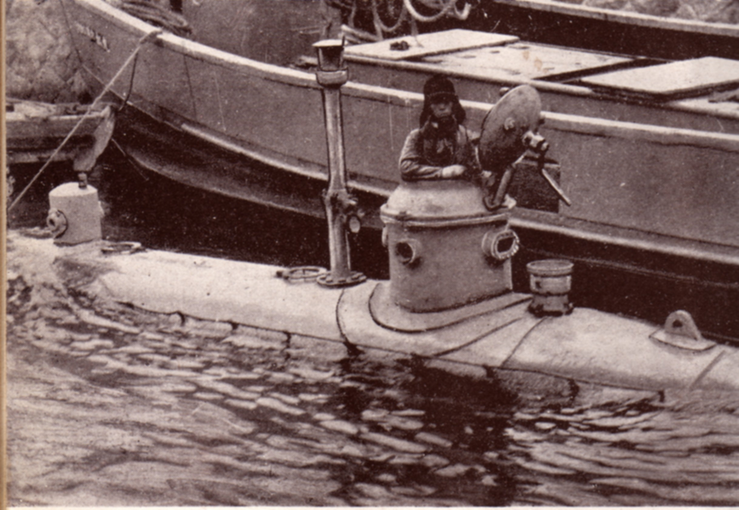 Nishimura type midget submarine used for survey of seabed of Kammon straight